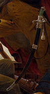 Detail from Washington Crossing the Delaware by Emanuel Leutze showing Washington's "Battle Sword".